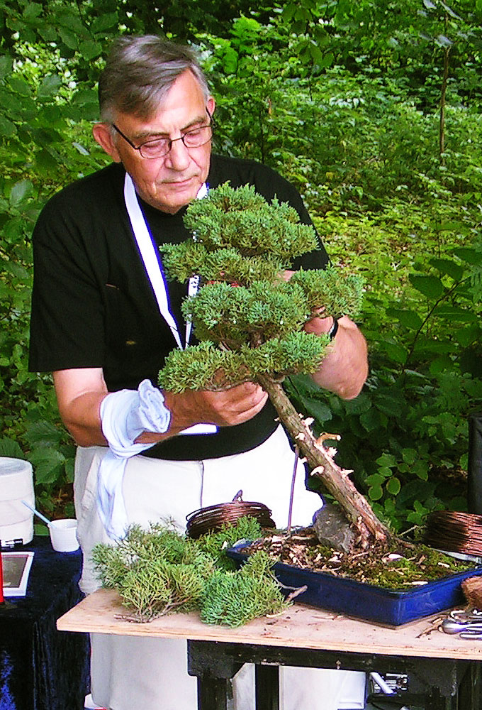 Ajustment of a Bonsai